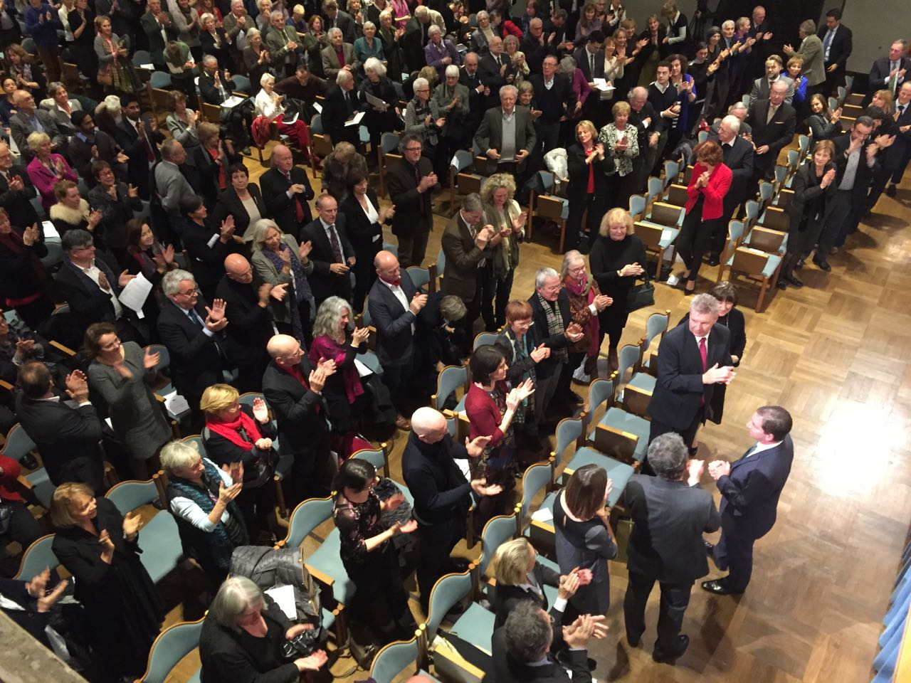 Standing Ovation for Glenn Greenwald, the Rezipient of the Geschwister-Scholl-Award 2014 (1.12.2014 in der "Großen Aula" der Ludwig-Maximilians-University, Munich).